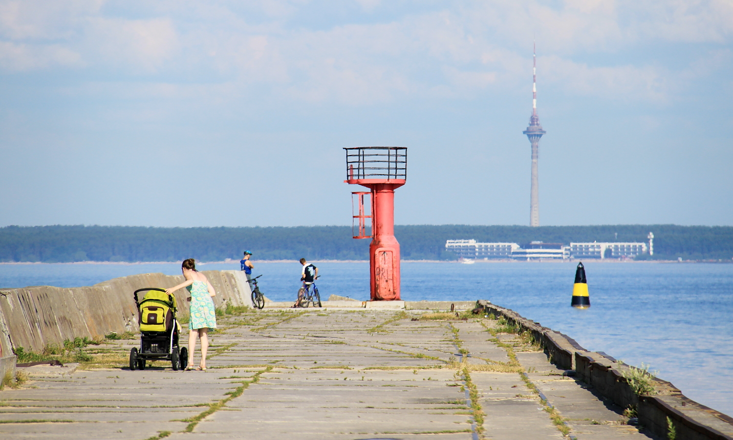 Katariina Quai in Paljassaare, Tallinn